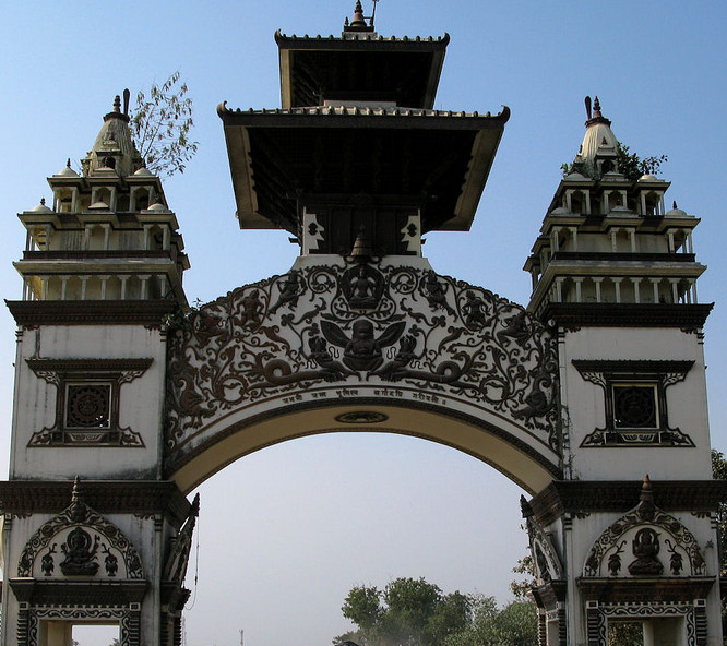 Gateway of Nepal AKA Shankaracharya Gate.